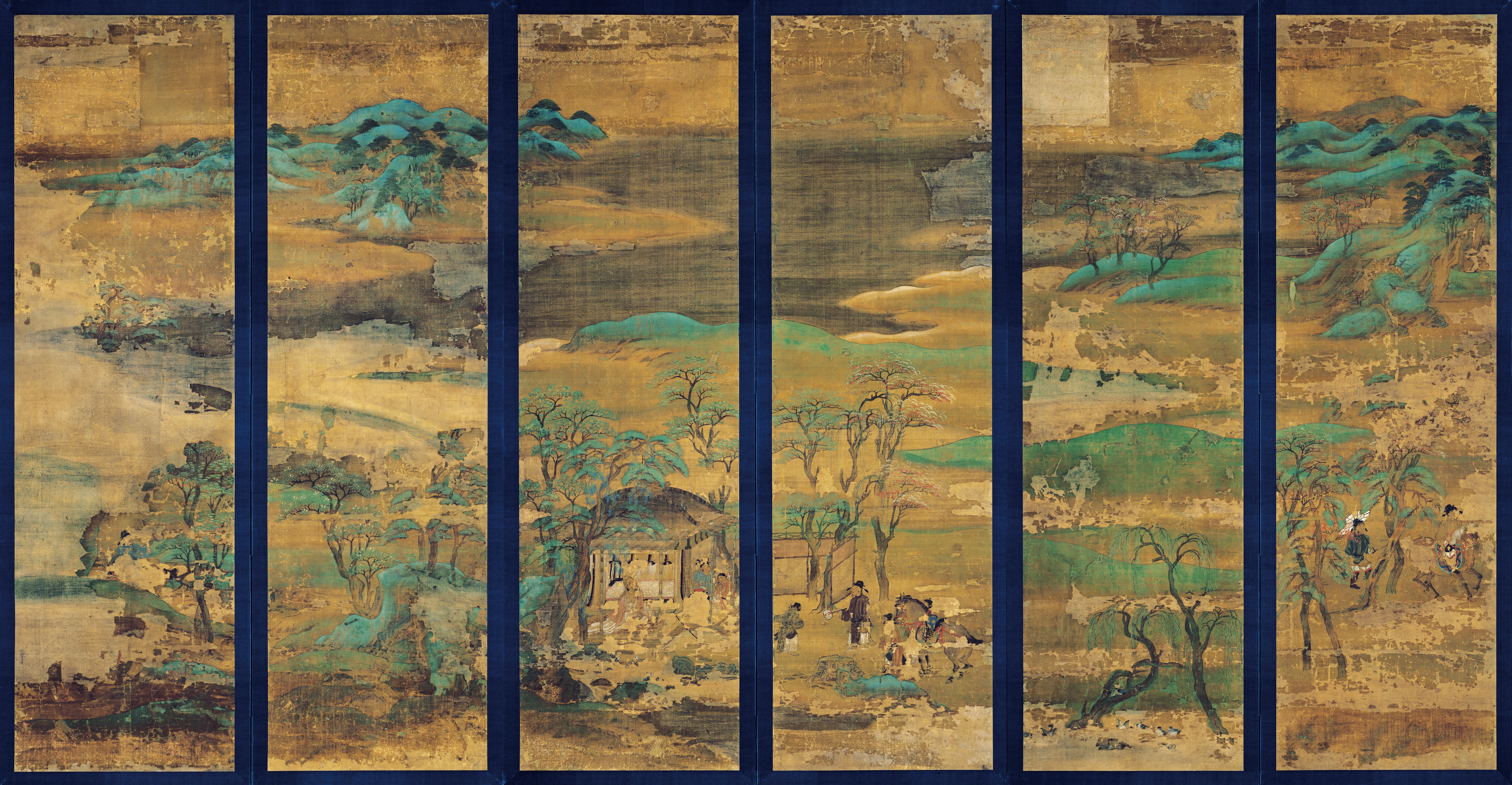 Landscape screen Color on silk, 6 panels, each panel 146.4 cm × 42.7 cm, 11th-12th century, late Heian period, former Toji- Temple, Kyoto, now in Kyoto National Museum Kyoto, Japan